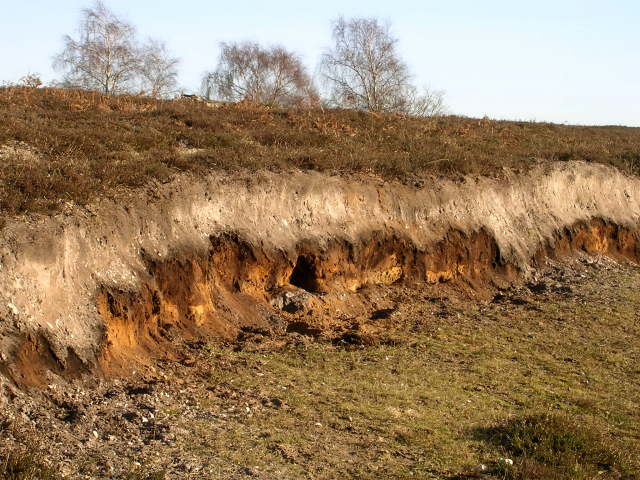 Exposed soil profile on Matley Heath, New Forest. The footpaths running southeast across Matley Heath from Ashurst Lodge to the Kings Passage are well-worn and this photo shows the soil profile exposed by erosion.